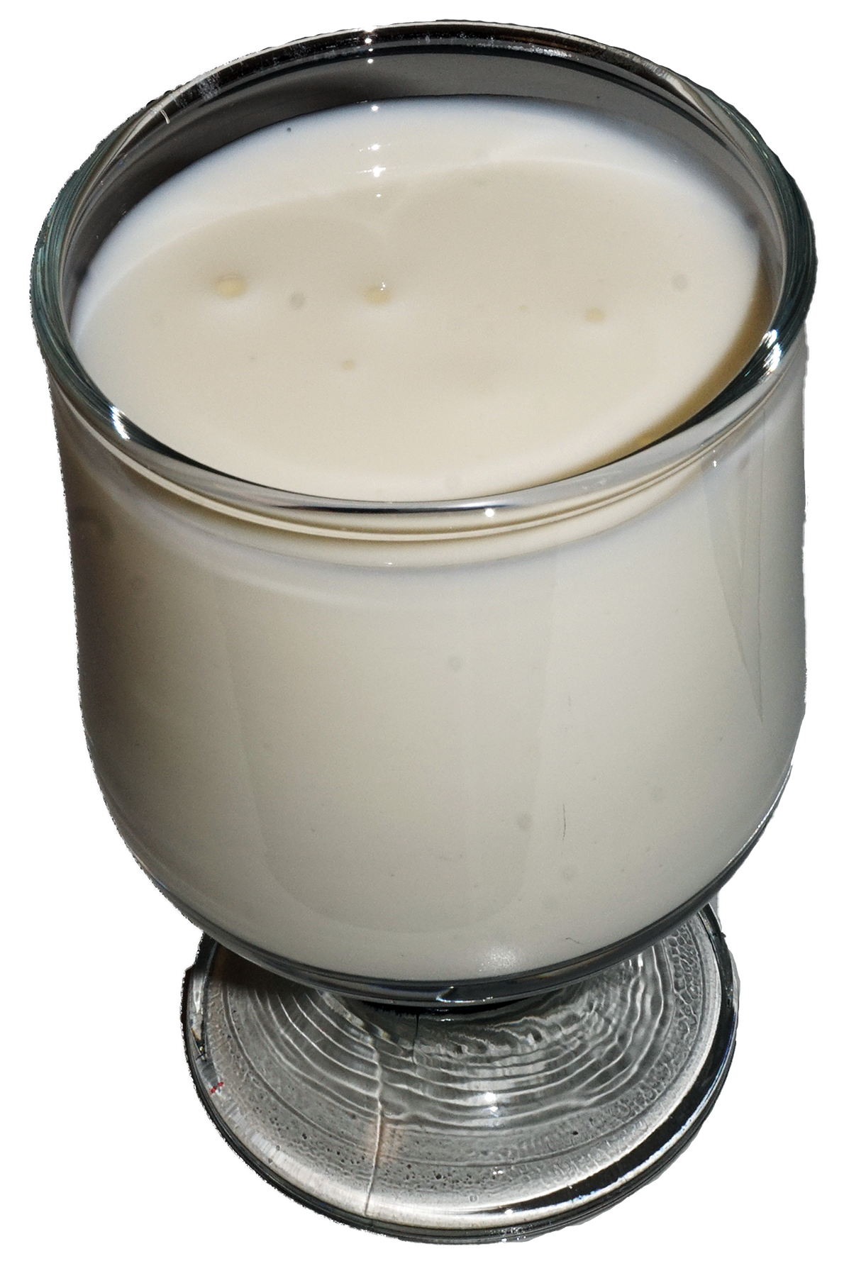 Buttermilk.